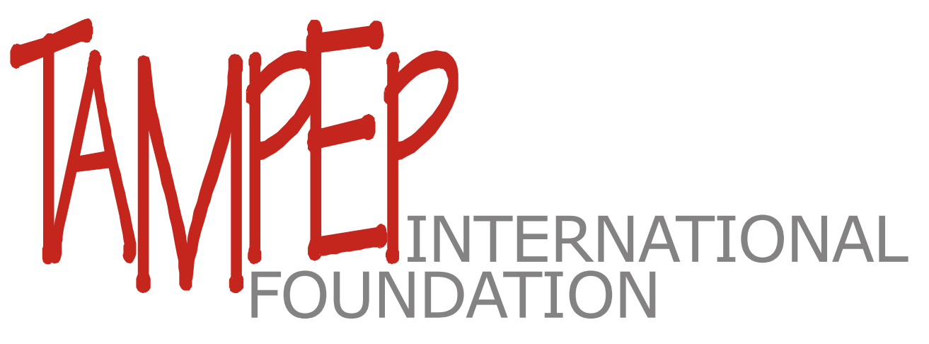 A logo of TAMPEP (Transnational AIDS/STI prevention amongst Migrant Prostitutes in Europe Project) used in 2015.